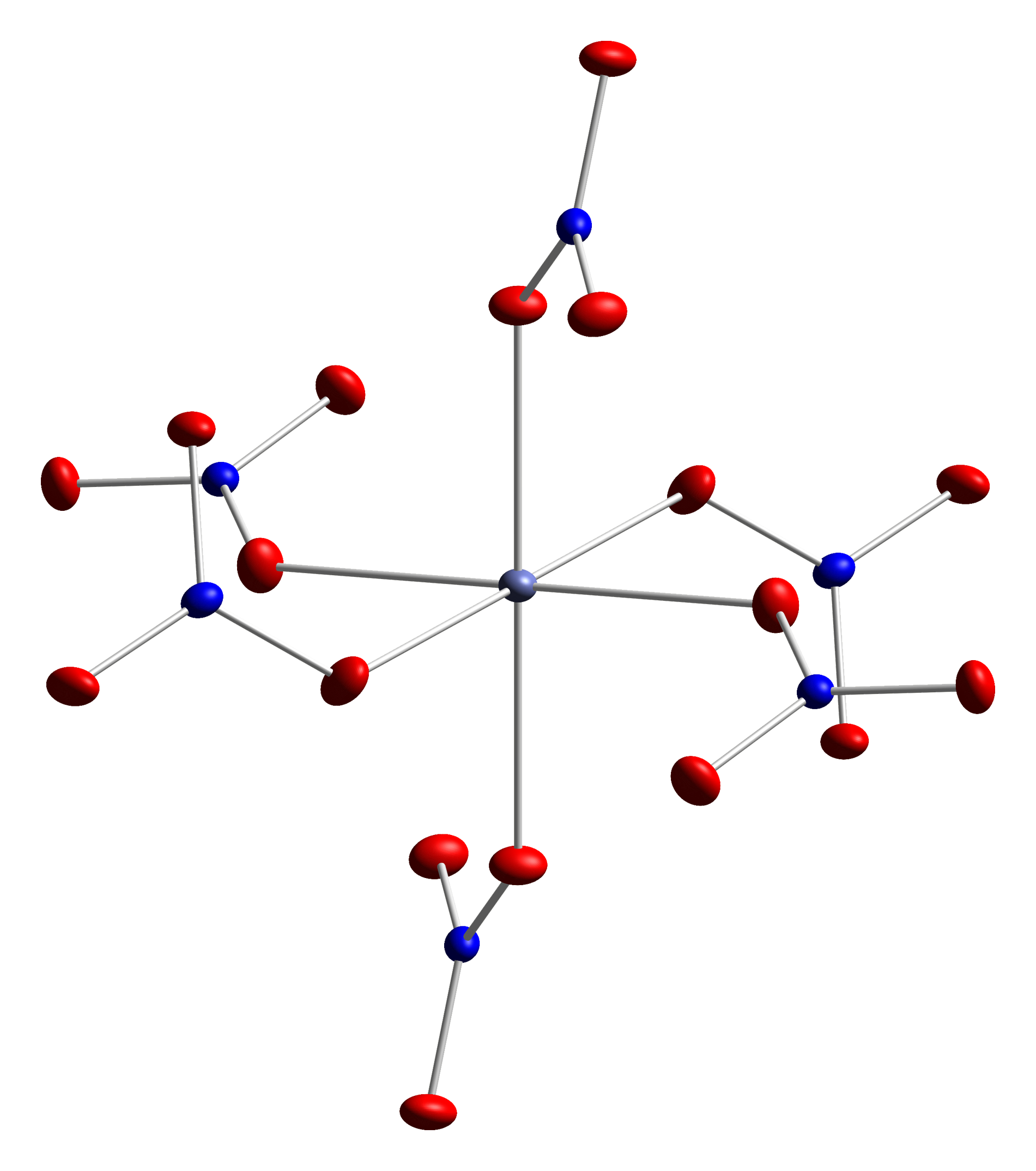 Thermal ellipsoid diagram of the coordination environment of cobalt #1 (Co1) in the crystal structure of cobalt(II) nitrate, Co(NO3)2. Colour code: Cobalt, Co: grey-blue Nitrogen, N: blue Oxygen, O: red Crystal structure from Z. anorg. allg. Chem. (2002) 628, 269-273, Image generated in CrystalMaker 8.3.